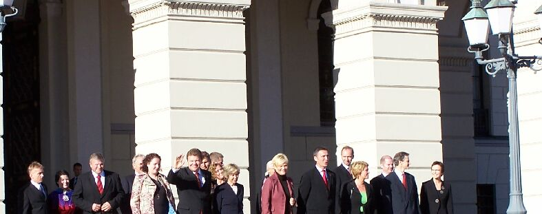 Jens Stoltenberg's 2nd Cabinet, outside the Royal Palace, Oslo, 17 October 2005